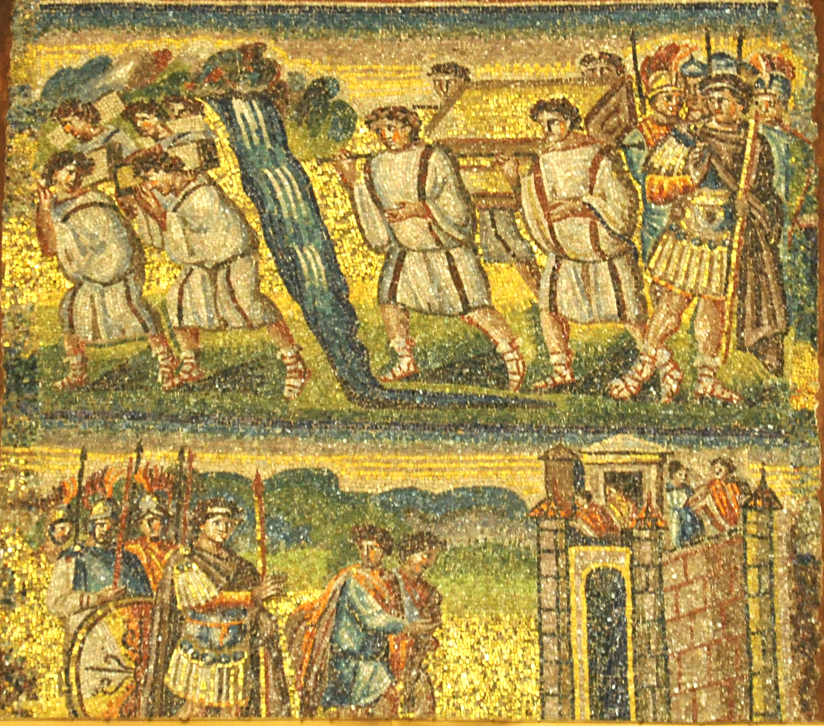 Top: The waters of the Jordan flow backward so that the people can cross, carrying the Ark. Bottom: Joshua sends spies into Jericho. See Joshua 2:1-22.